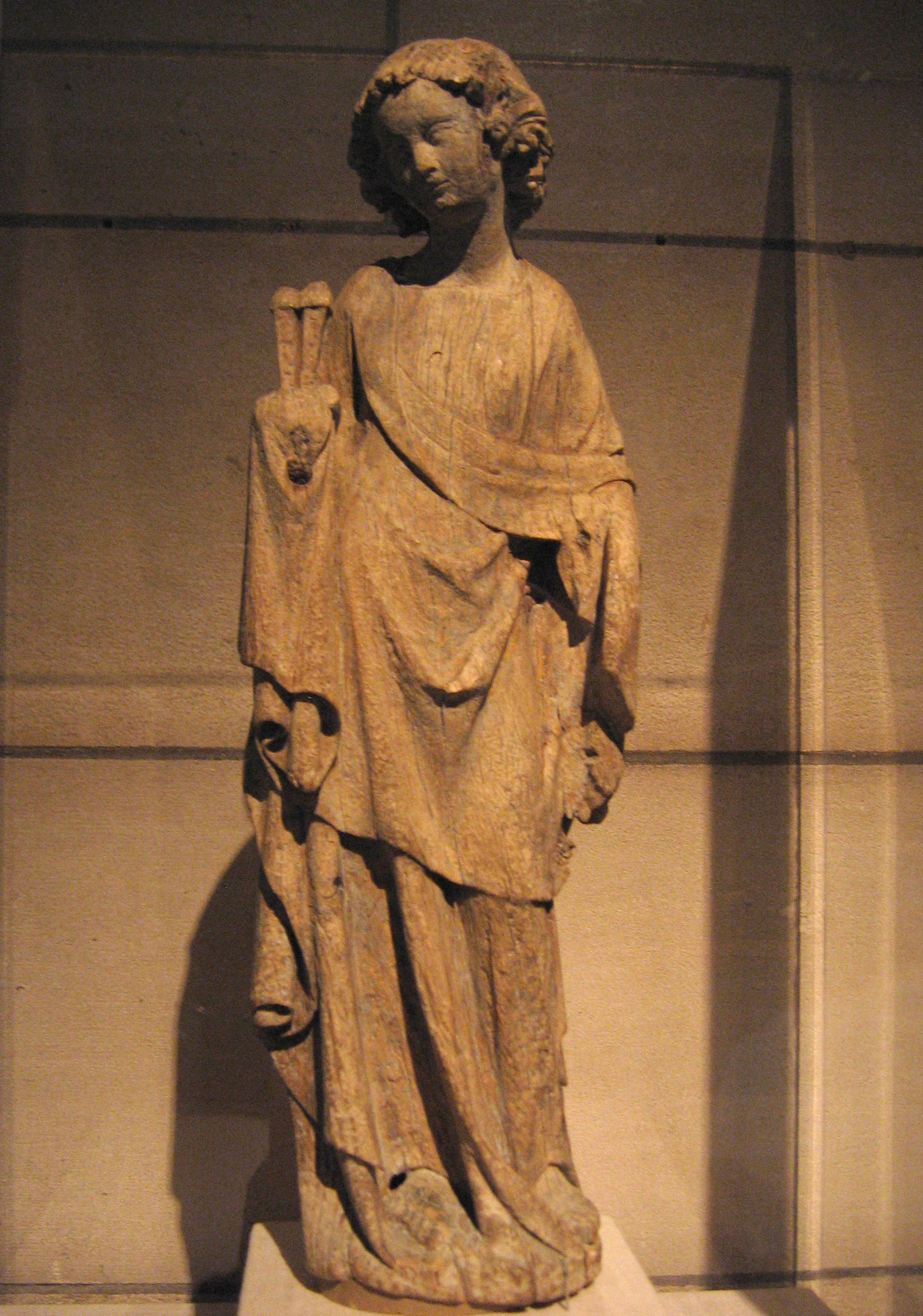 Angel Holding the Instruments of the Passion, late 13th century. North French. Oak. Metropolitan Museum of Art, New York City.